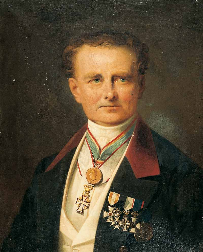 Portrait of Georg Christian Friedrich Lisch with orders and medals